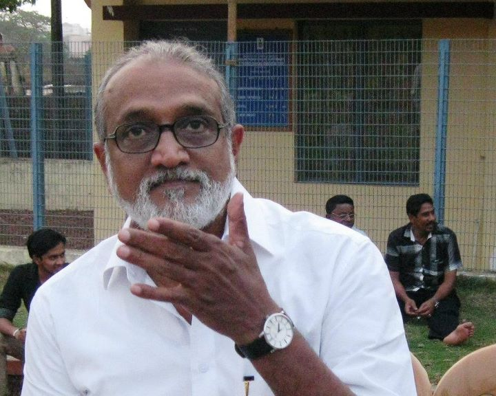 V.K. Sreeraman, malayalam film actor and writer